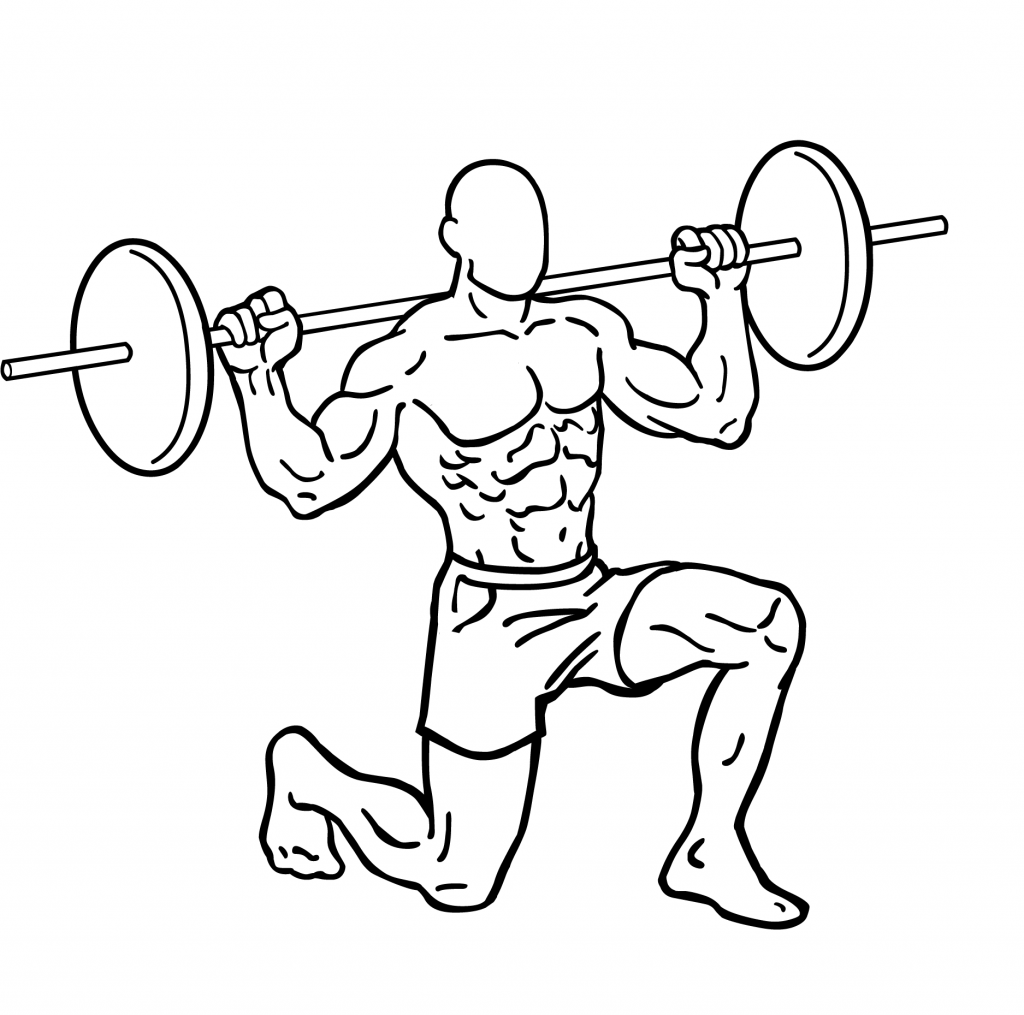 an exercise of hip